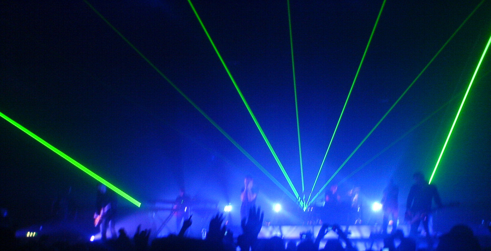 Kent in Halmstad 2008-02-21